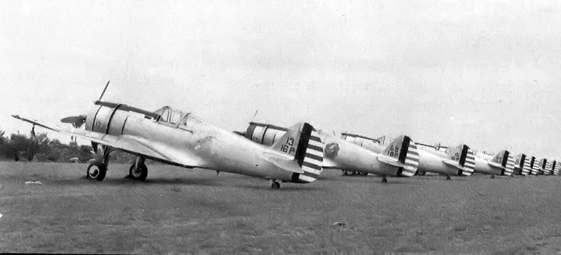 Eight 24th Pursuit Squadron Curtiss P-36A Hawks at Rio Hato Airfield, Panama Identified aircraft are 38-0013, 38-0069 and 38-0015.